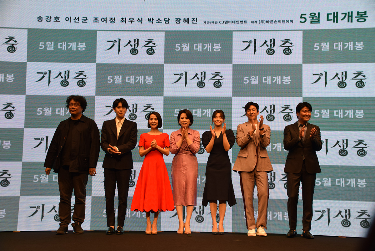 From left to right: Bong Joon-ho, Choi Woo-shik, Cho Yeo-jeong, Jang Hye-jin, Park So-dam, Lee Sun-kyun and Song Kang-ho.